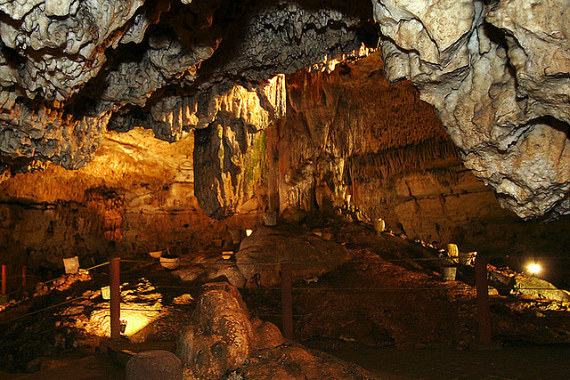 Stalactites at Gruta de Balankanché